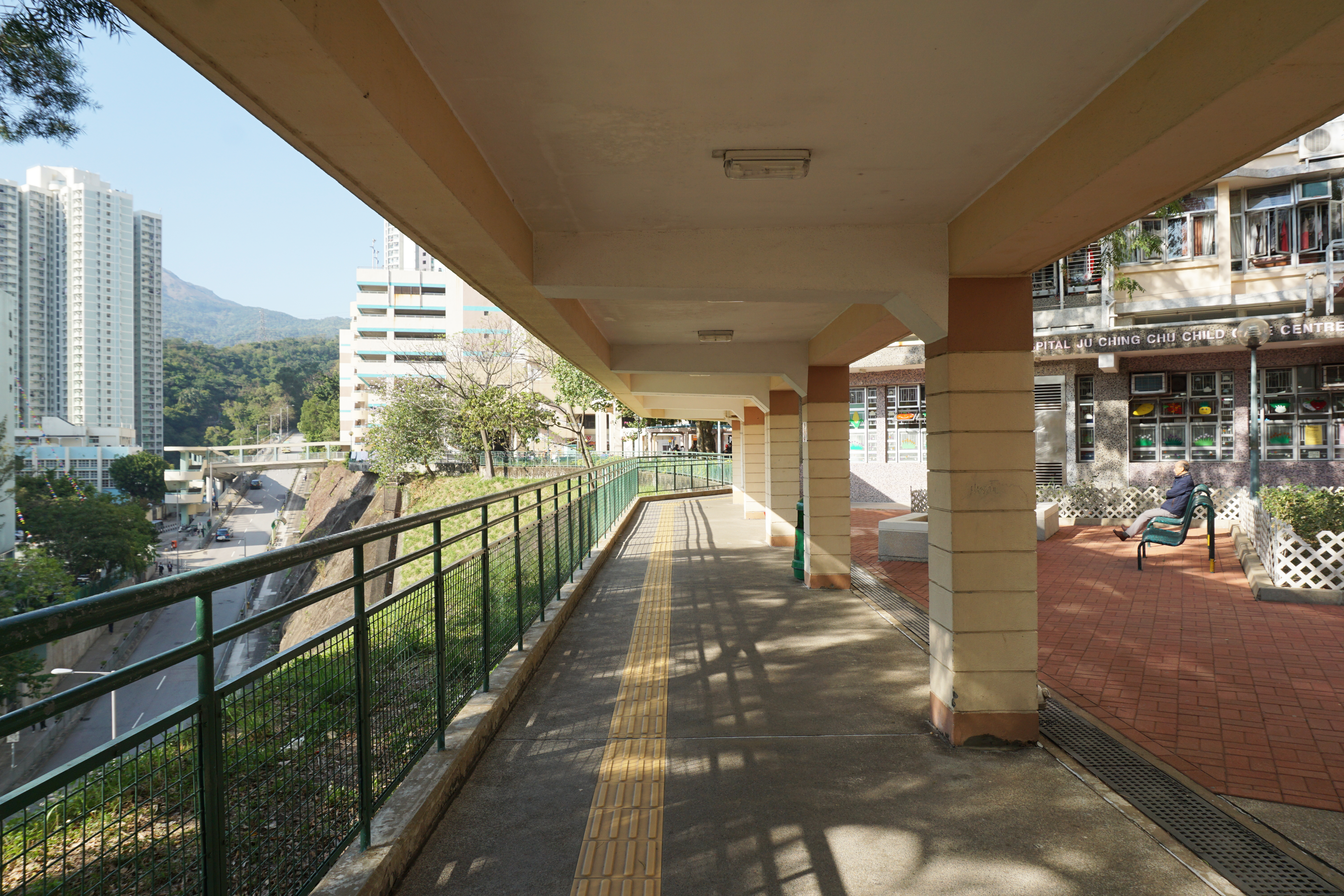 On Yam Estate in Shek Yam, Hong Kong.